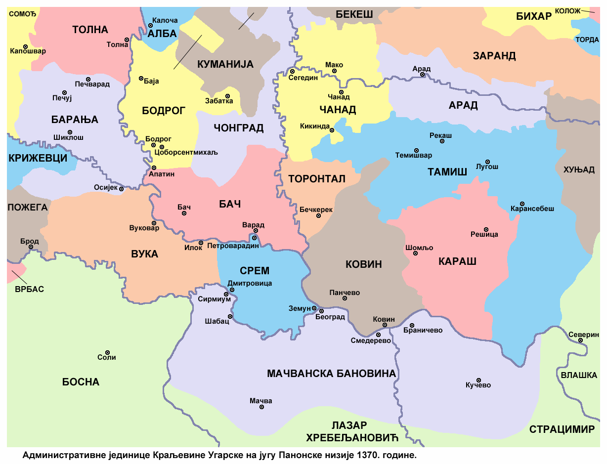 Administrative units of the Kingdom of Hungary in the southern Pannonian plain in 1370.